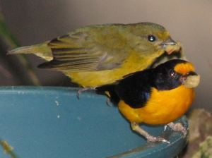 Violaceous Euphonia Female (Yellow) Male (Black Whith Yellow)